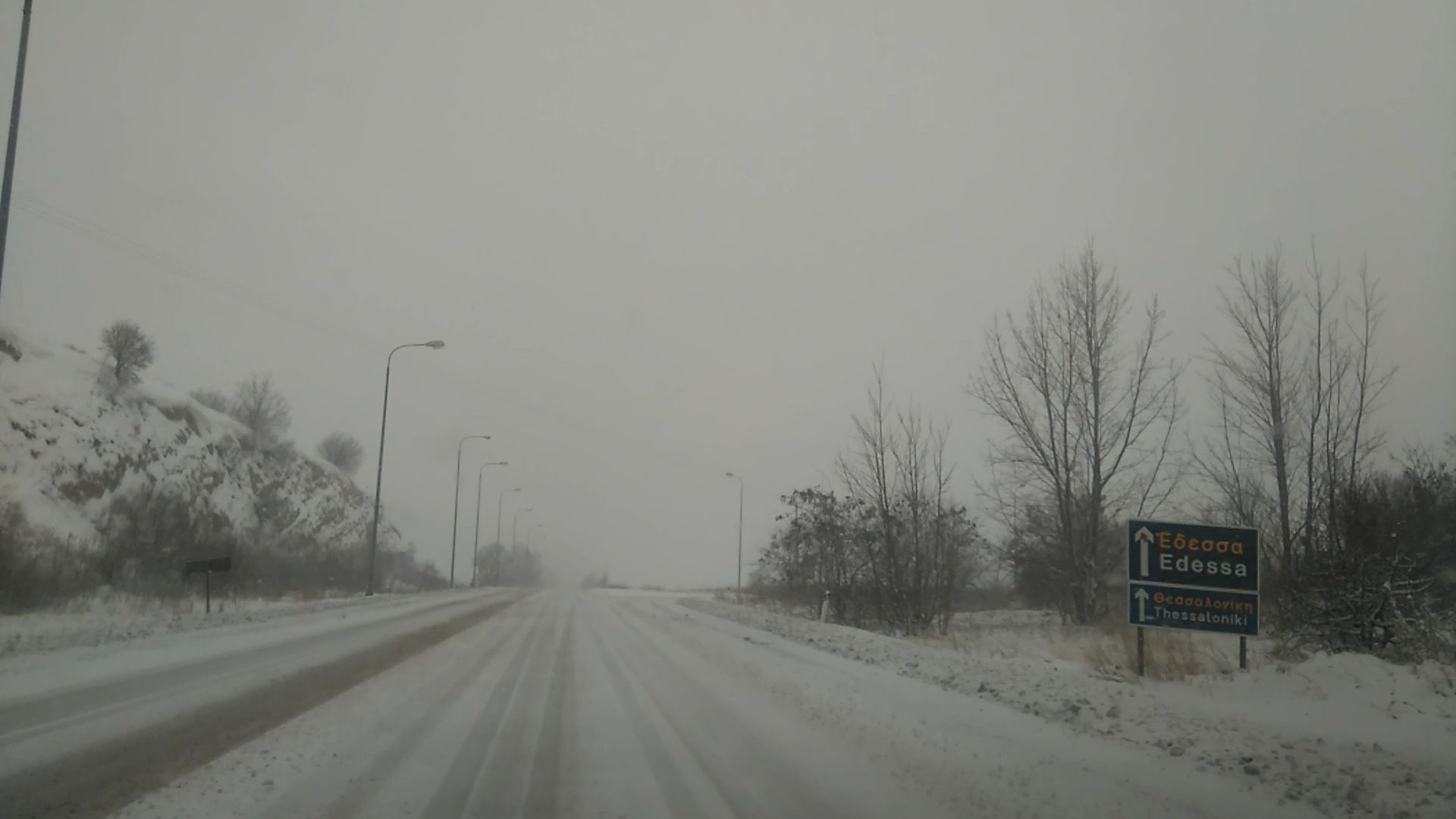 National Road 3 (A27) at an intersection south of Amyntaio, Florina, Greece on 9 January 2019, during heavy snow